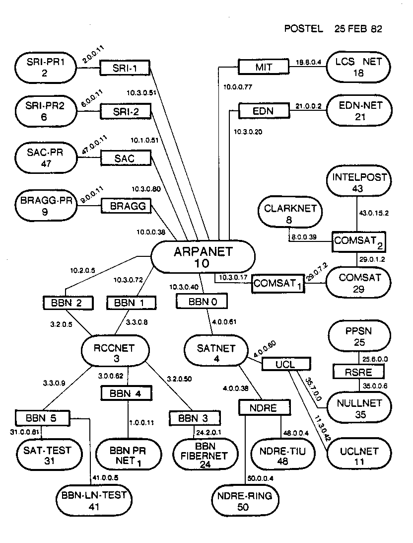 Contemporary map of the entire Internet in semi-production phase (many hosts attached to the ARPANET were still using NCP at this point) in February 1982. The ovals are sites/networks (some sites included more than one physical network), the rectangles are individual routers. No individual hosts are shown. Drawn by Jon Postel of the Information Sciences Institute, under a DARPA research contract as part of Internet development.